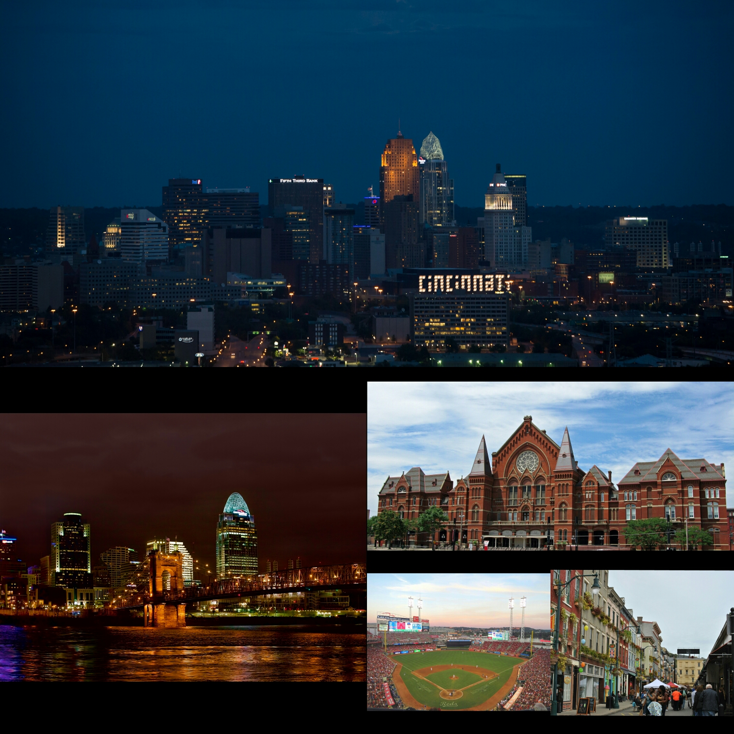 A collage of different photos of Cincinnati